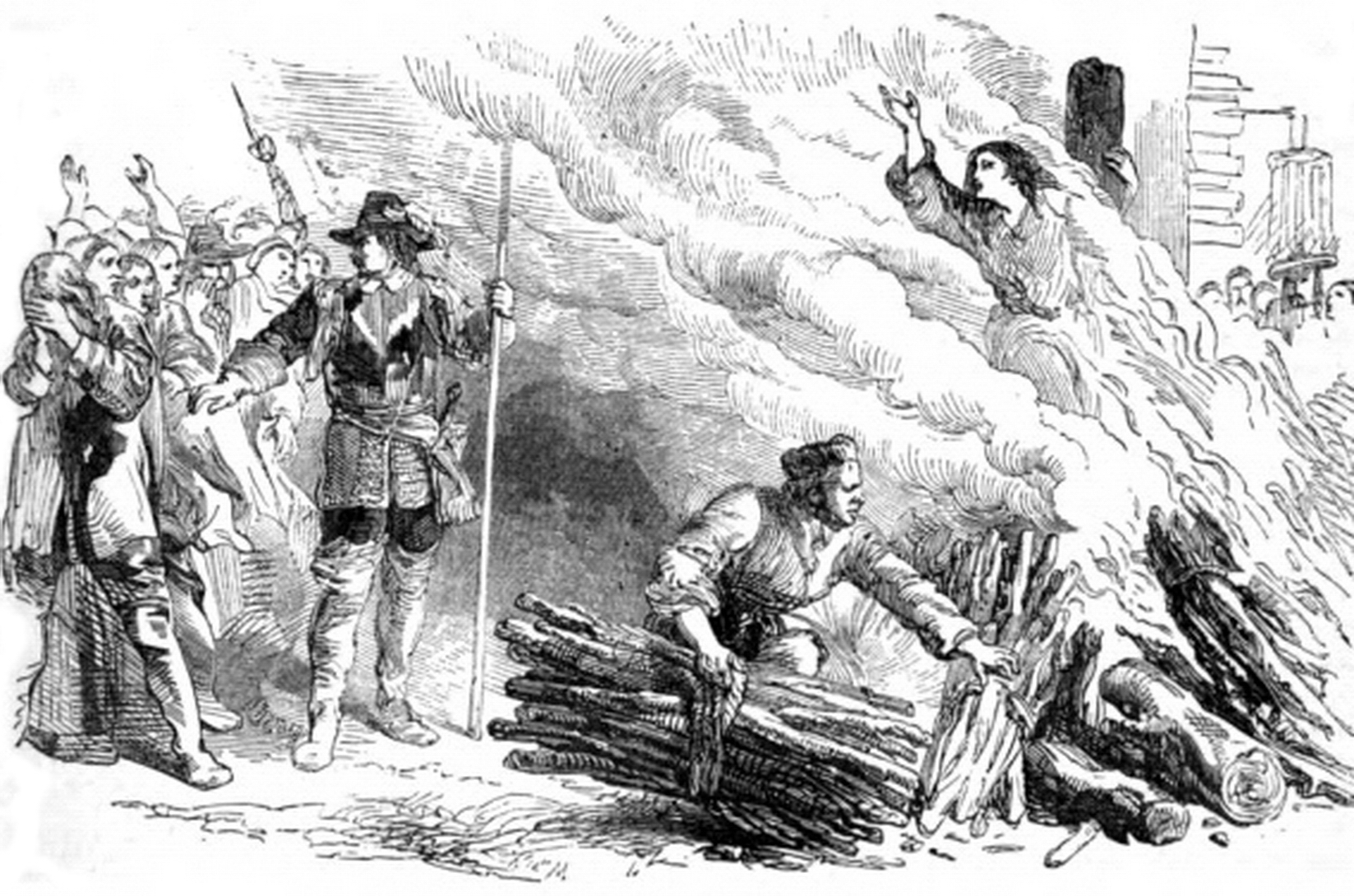 The title is the same as the image caption above and in "Cassell's Illustrated History of England, Volume 3". The number shown is the page number. Follow the image link to the full book vol.3.